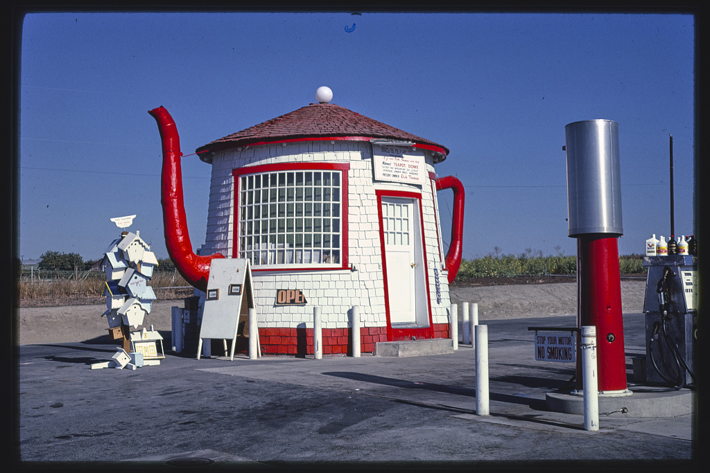 Margolies, John,, photographer. Teapot Dome gas station, Zillah, Washington 1987. 1 photograph : color transparency ; 35 mm (slide format). Notes: Title, date and keywords based on information provided by the photographer. Margolies categories: Mimetic gas stations; Gas stations. Please use digital image: original slide is kept in cold storage for preservation. Credit line: John Margolies Roadside America photograph archive (1972-2008), Library of Congress, Prints and Photographs Division. Purchase; John Margolies 2007 (DLC/PP-2007:125). Forms part of: John Margolies Roadside America photograph archive (1972-2008). Subjects: Automobile service stations--1980-1990. Mimetic buildings--1980-1990. United States--Washington (State)--Zillah. Format: Slides--1980-1990.--Color For more information, see "John Margolies Roadside America Photograph Archive - Rights and Restrictions Information" Repository: Library of Congress, Prints and Photographs Division, Washington, D.C. 20540 USA, Part Of: Margolies, John John Margolies Roadside America photograph archive (DLC) 2010650110 General information about the John Margolies Roadside America photograph archive is available at Higher resolution image is available (Persistent URL): Call Number: LC-MA05- 1